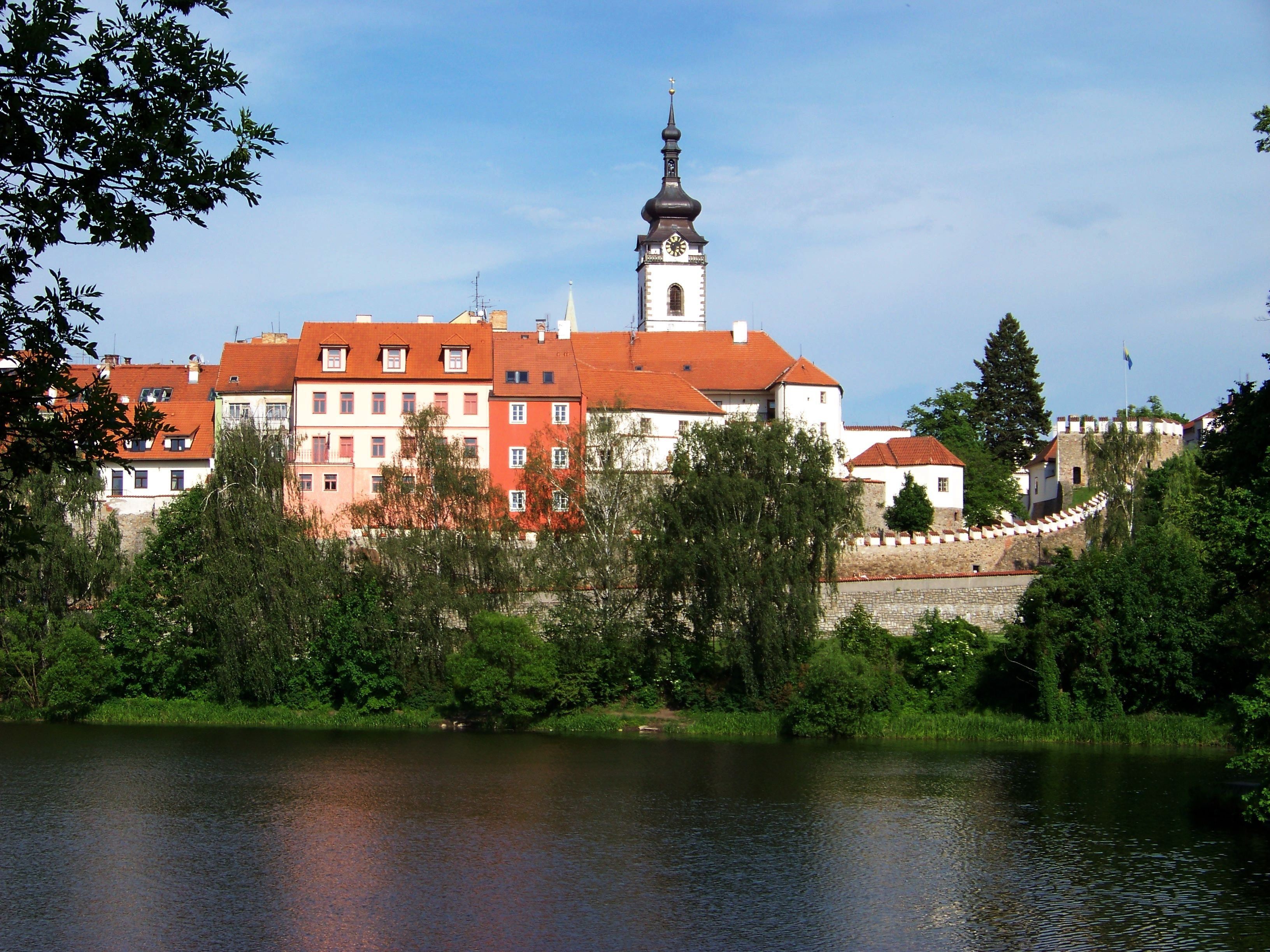 Písek-Vnitřní Město, Písek District, South Bohemian Region, the Czech Republic. A view across the Otava river.